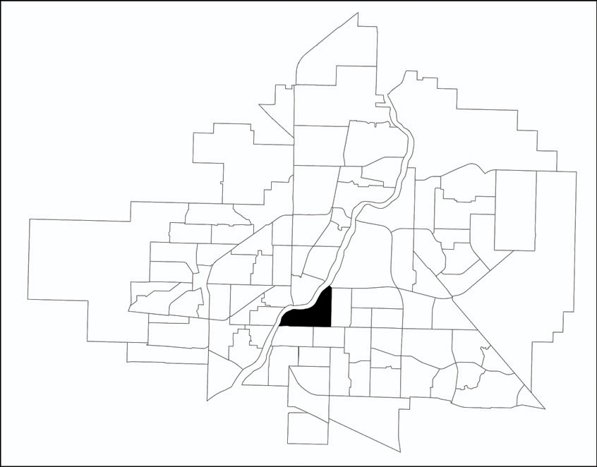 A map showing the location of the Nutana neighbourhood in relation to the other neighbourhoods in Saskatoon.